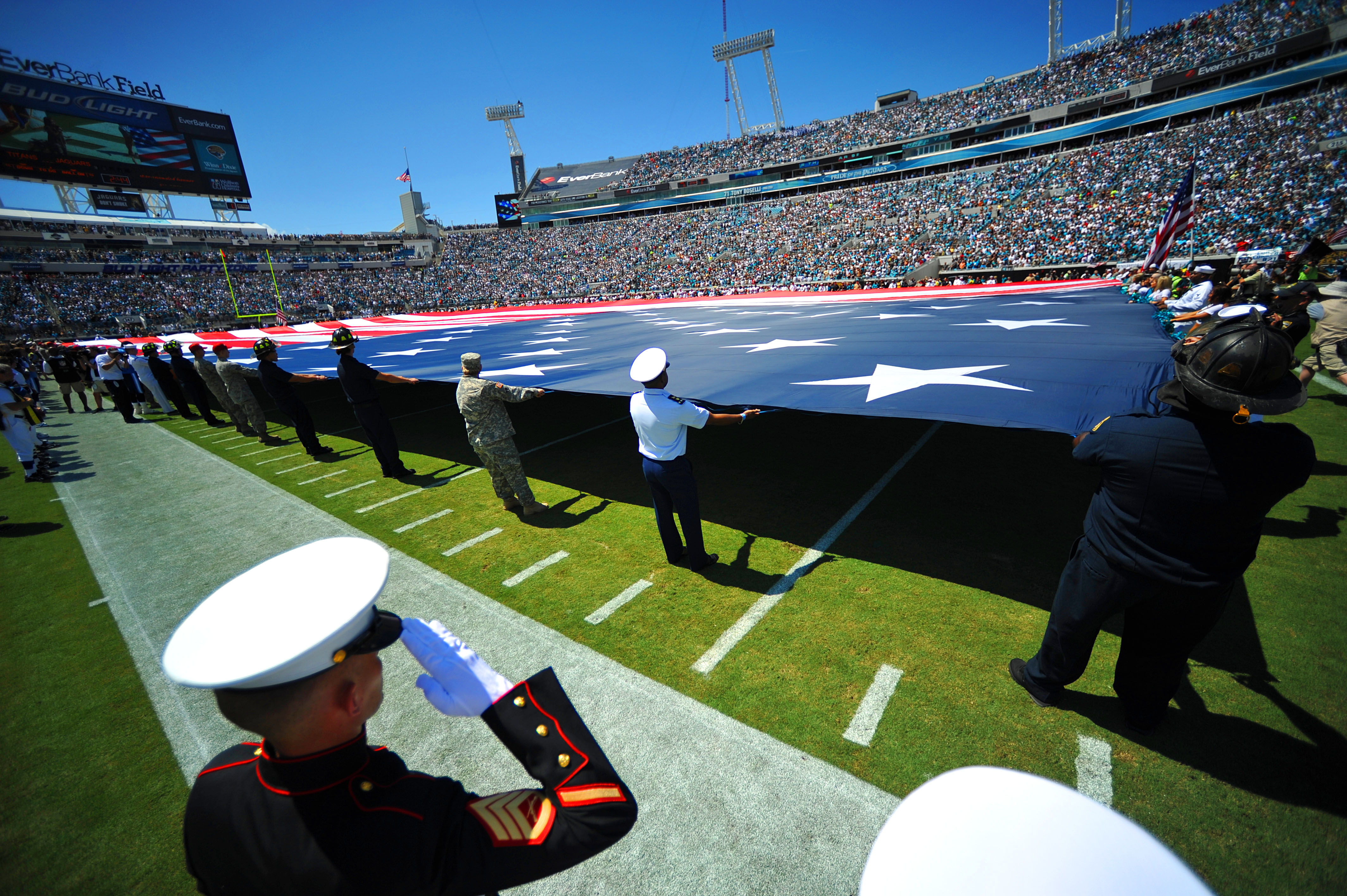 JACKSONVILLE, Fla. (Sept. 11, 2011) Service members, firemen and police officers participate in a ceremony commemorating the 10th anniversary of the Sept. 11, 2001 terrorist attacks before a Jacksonville Jaguars NFL game. More than 300 Sailors from Naval Air Station Jacksonville, Naval Station Mayport and Naval Submarine Base Kings Bay participated in a pre-game and halftime performance. (U.S. Navy photo by Mass Communication Specialist 2nd Class Gary Granger Jr./Released)